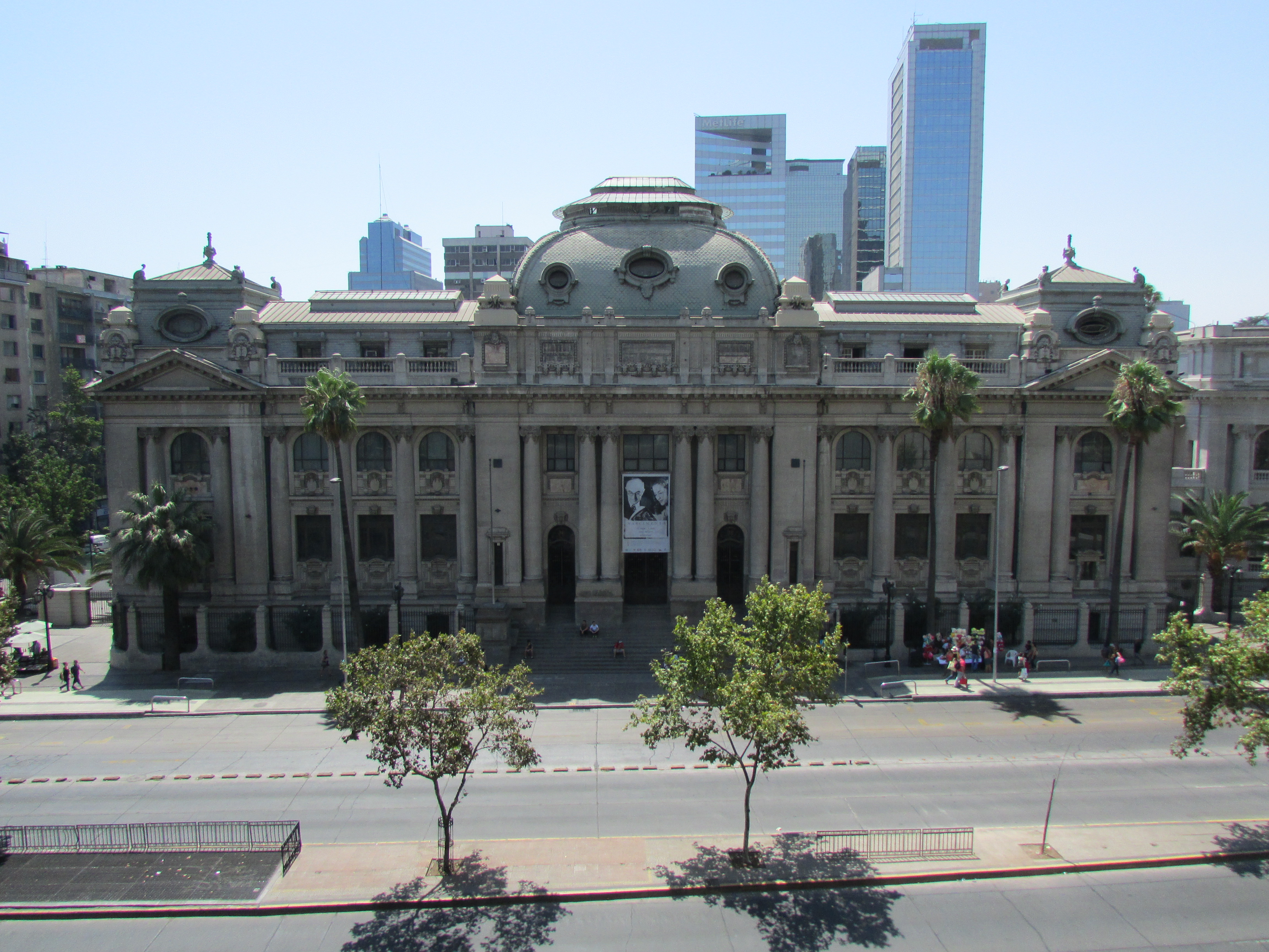 Frontal view the National Library of Chile This is a photo of a national monument in Chile: 102